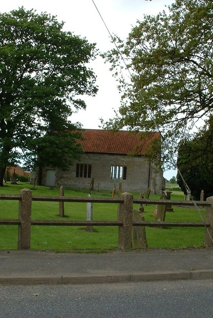 Chapel of Ease, Guyhirn, Cambridgeshire